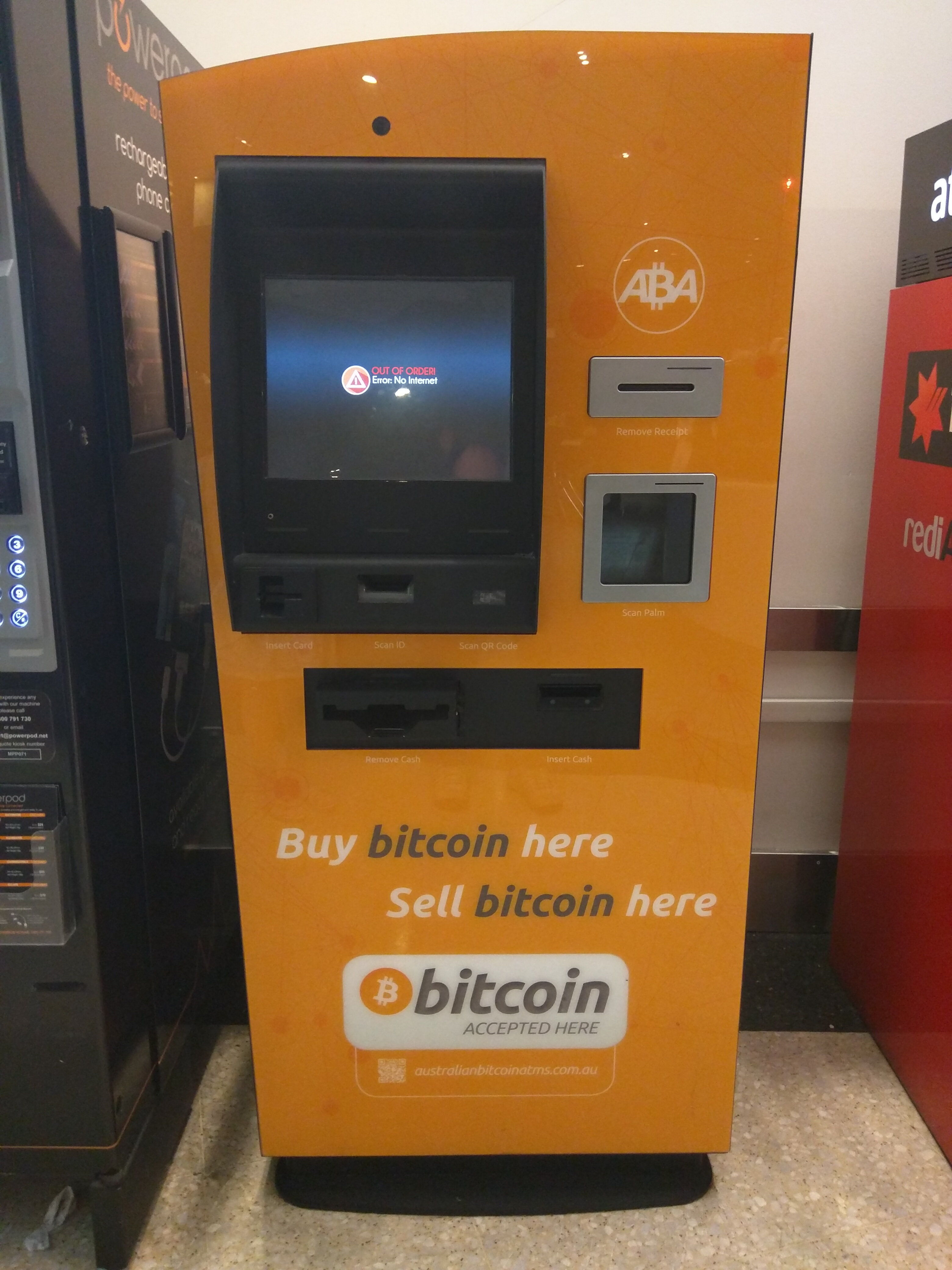 Australian Bitcoin ATM